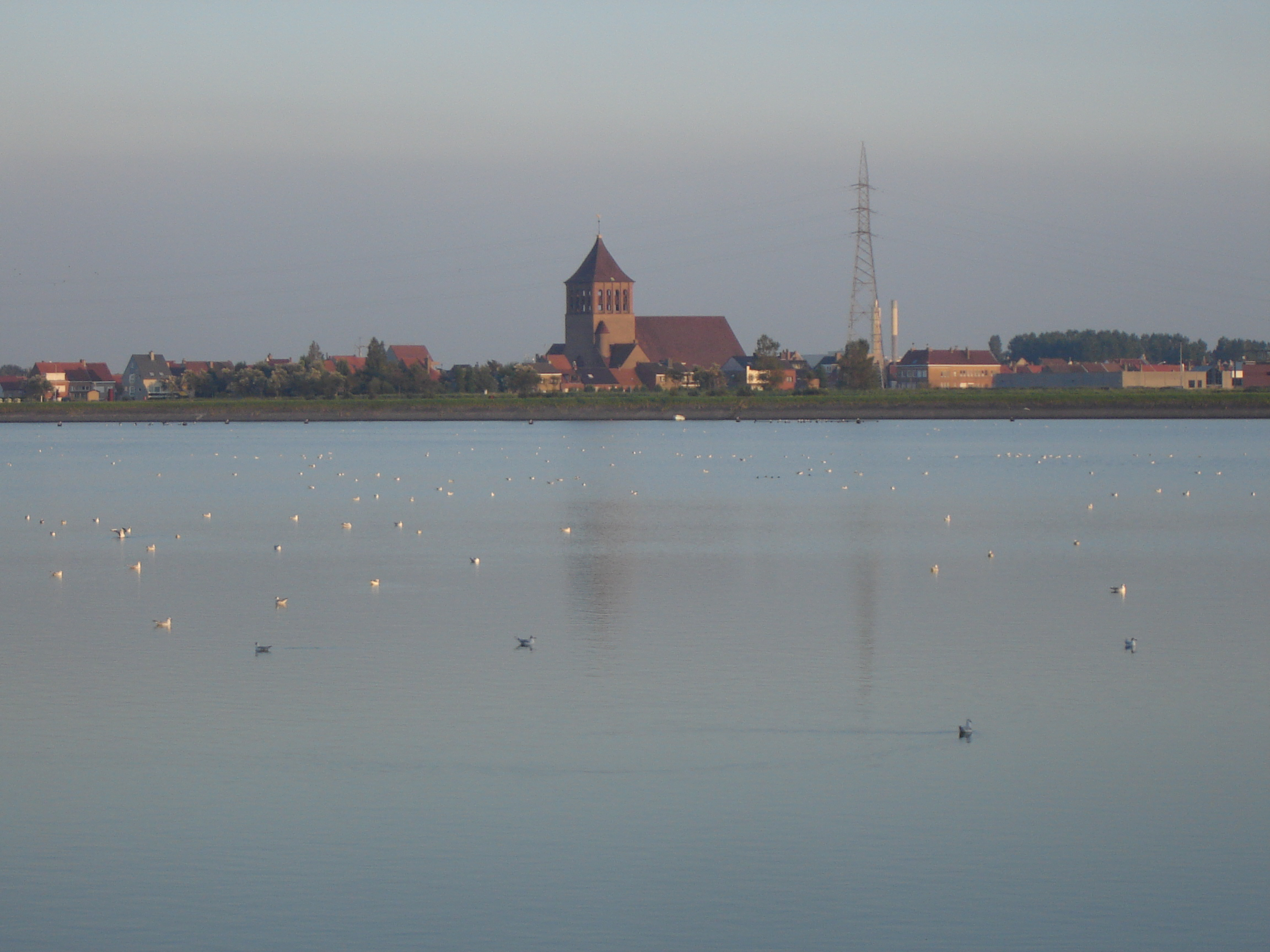 View on the quarter Bredene-Sas in Bredene, as seen from across the Spuikom in Oostende. Bredene, West Flanders, Belgium